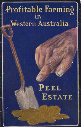 Group Settlement Scheme poster